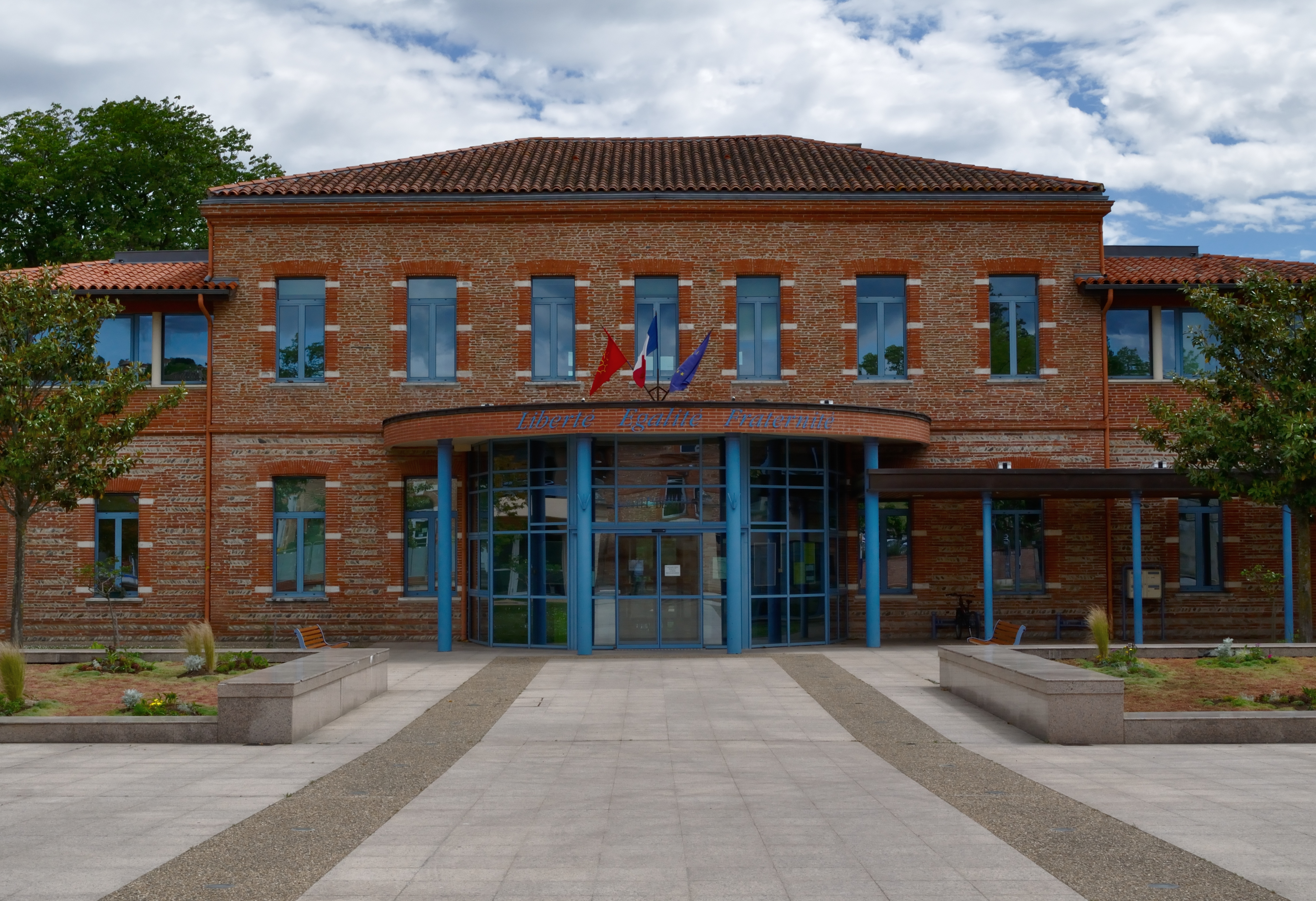 Town hall of Castanet-Tolosan (Midi-Pyrénée, France)